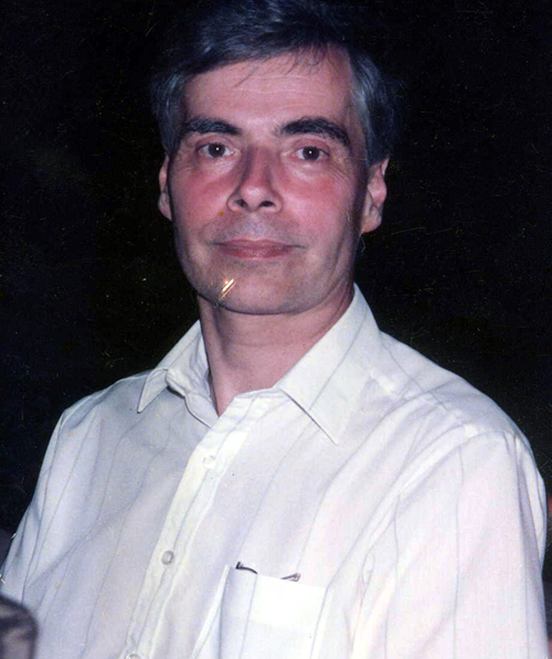 Picture taken in Paphos in Sep 1988 during the "Perspectives in Motor Control" symposium organized by H.D. Henatsch, Uwe Windhorst and Yiannis Laouris.